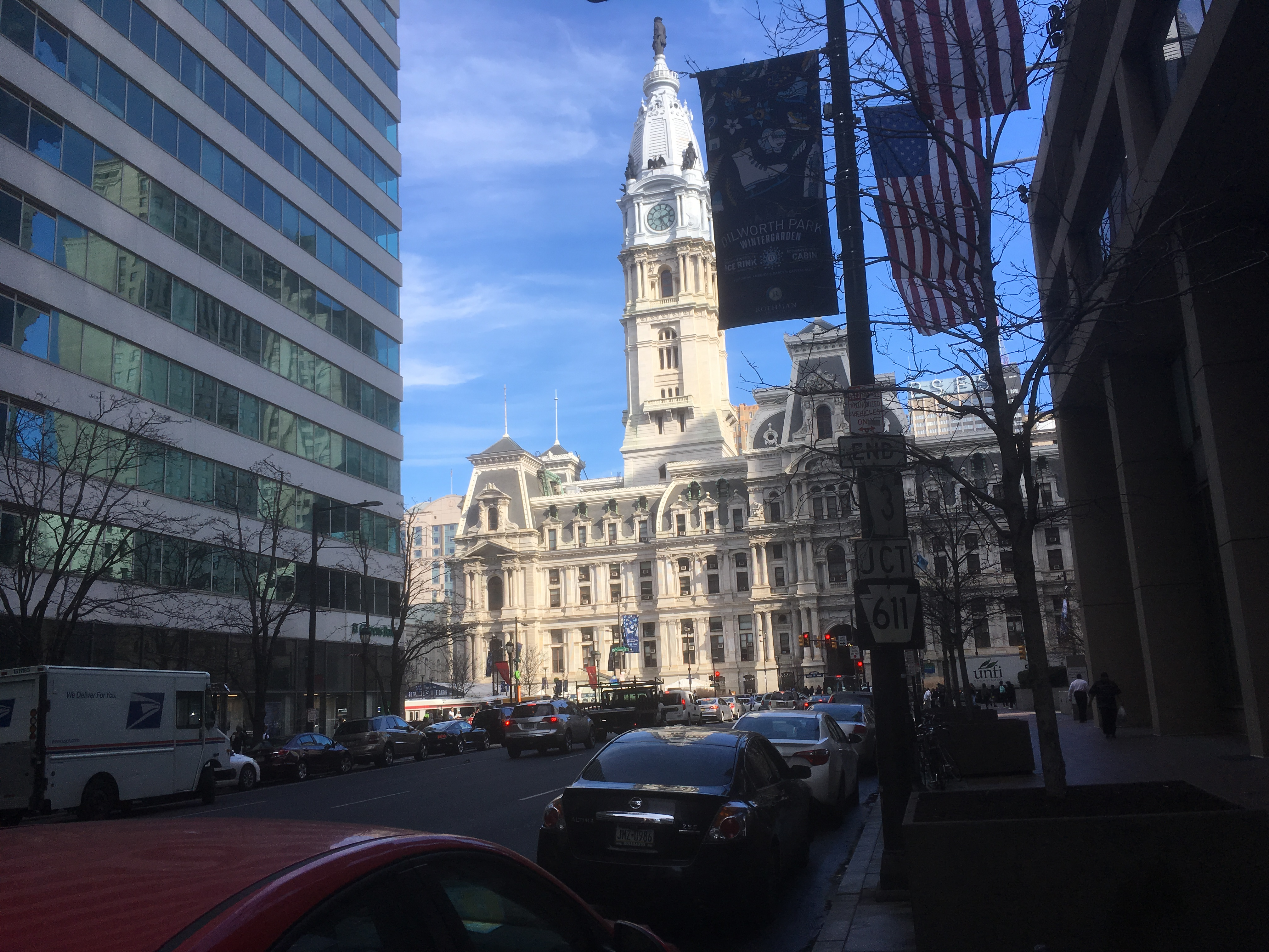 Eastbound Pennsylvania Route 3 (Market Street) approaching its eastern terminus at Pennsylvania Route 611 (15th Street) on the western edge of Philadelphia City Hall.